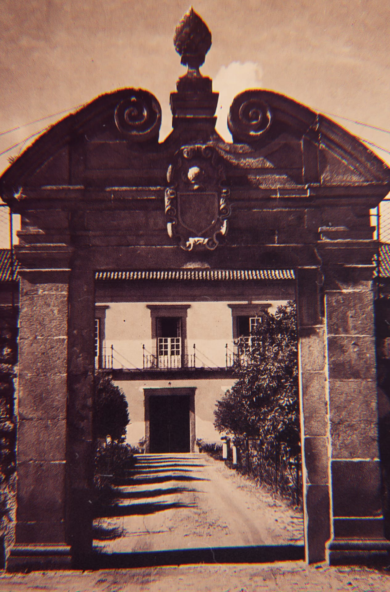 Portal de granito da Casa das Hortas (Faria Machado)